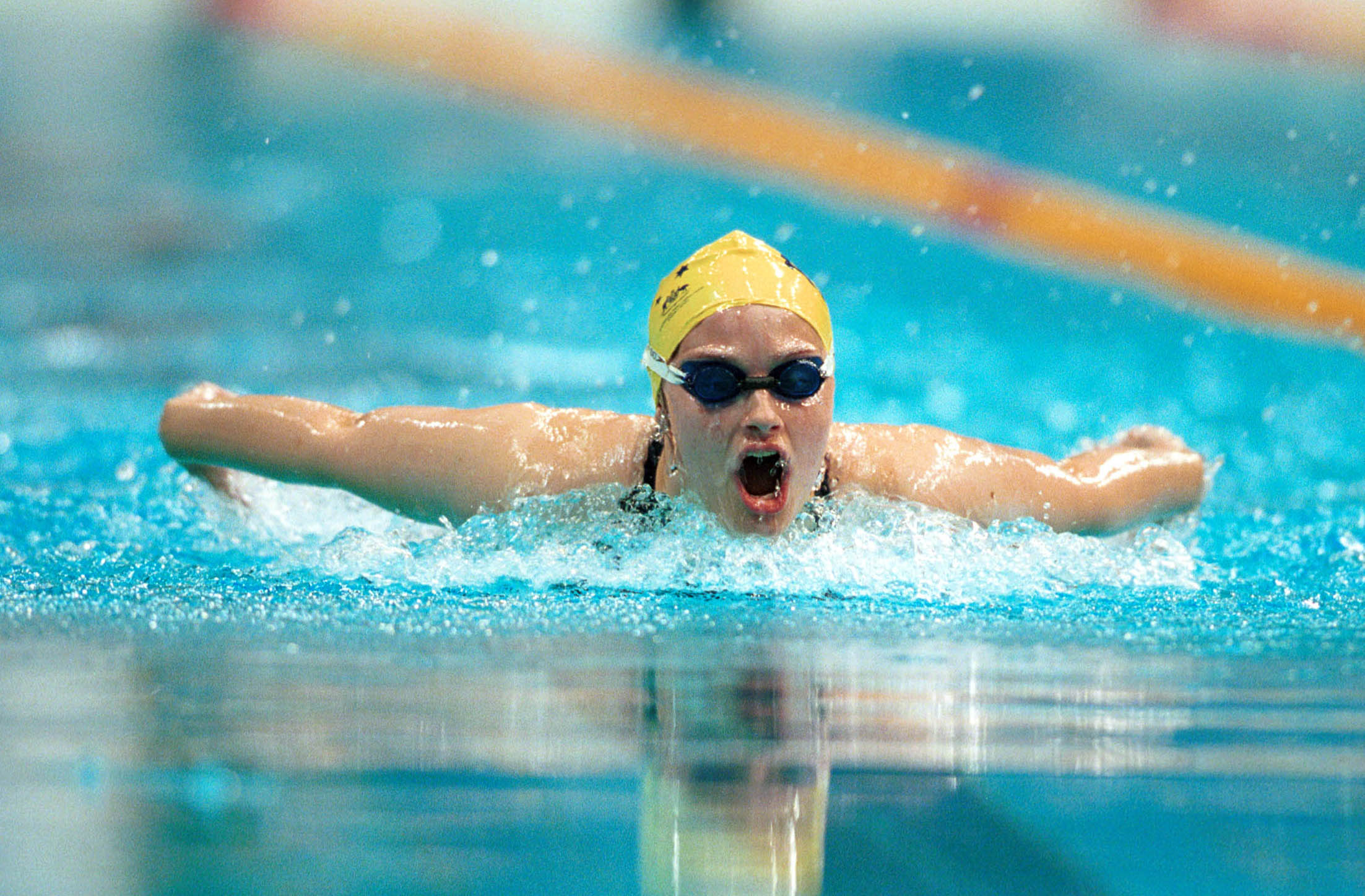 Action shot of Australian swimmer Kate Church in the pool during Day 03 of the 2000 Sydney Paralympic Games